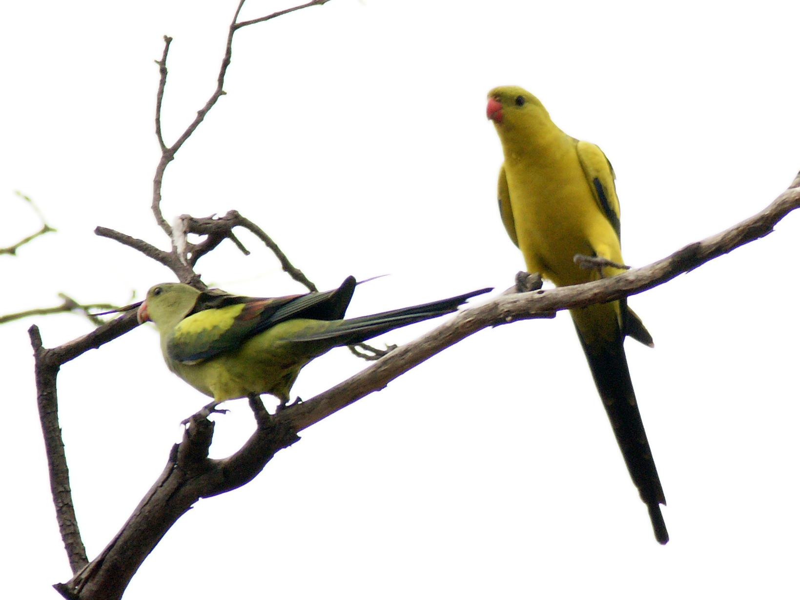 A pair of Regent Parrots (female left and male right) at Wyperfeld National Park, Victoria, Australia.